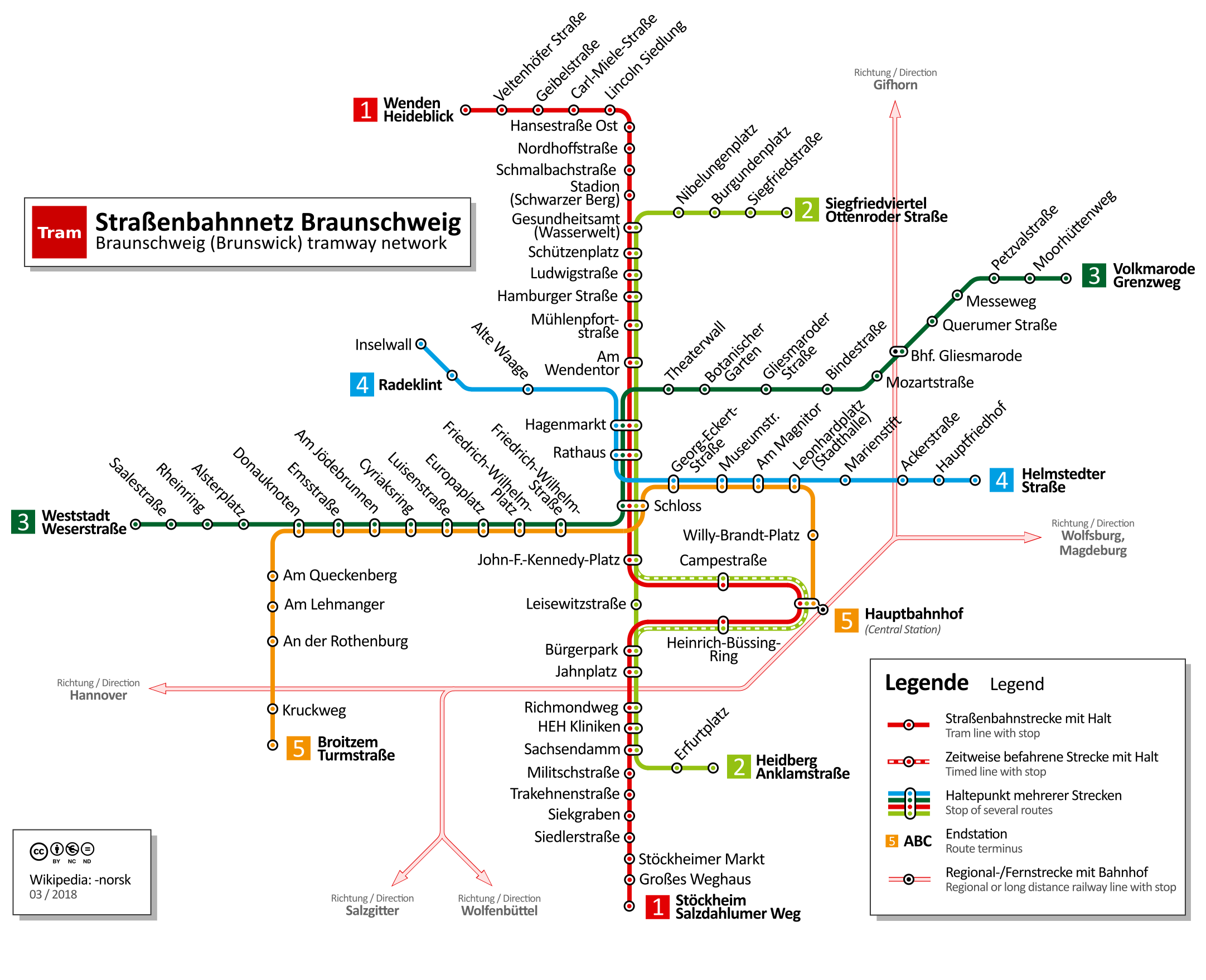 Brunswick tramway network